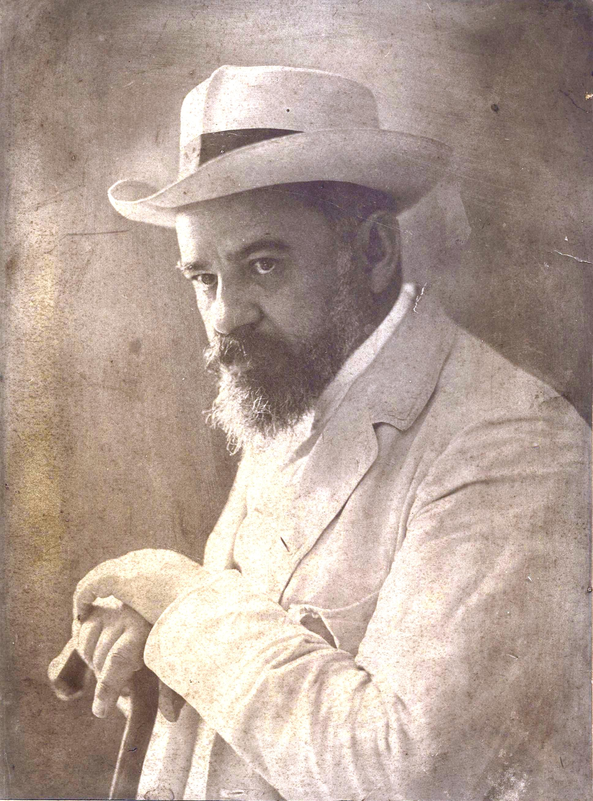 Bulgarian poet Pencho Slaveykov (1866-1912).